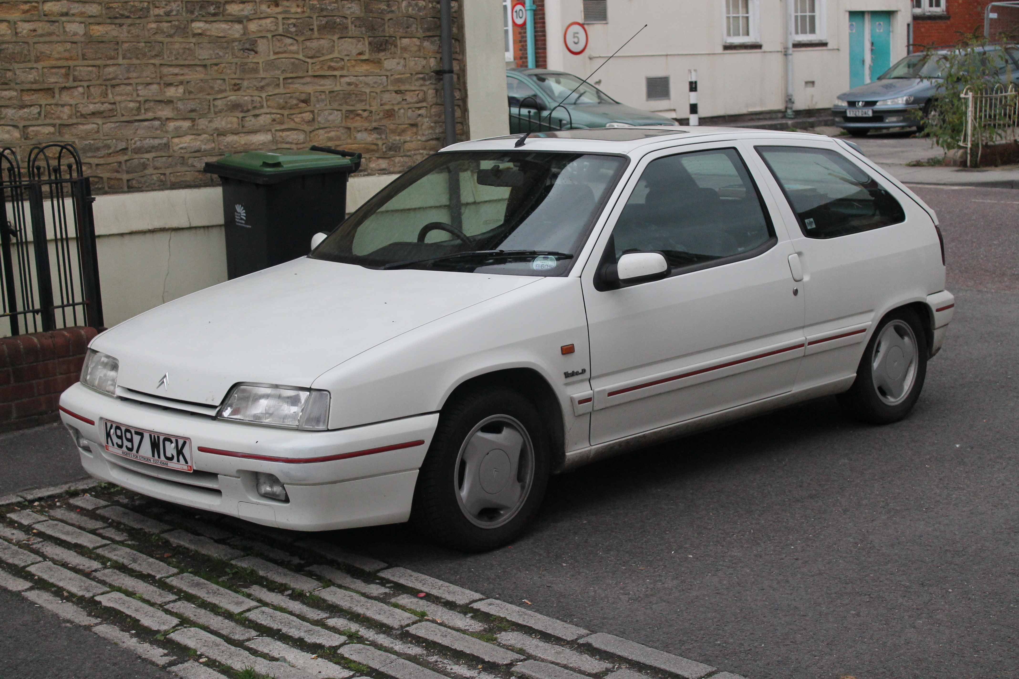 This is the top of the range, sporty Citroen ZX called the Volcane with a 1.9 litre diesel. This is the Turbo Diesel model. Nice looking in white, I think, and are getting more uncommon. This one looks very clean and original! Quite immaculate, apart from they forgot to clean the underside on the nearside!